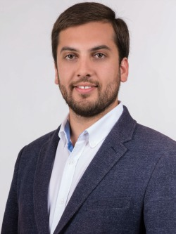 Official photograph of Raúl Soto Mardones as deputy of the Republic of Chile in 2018